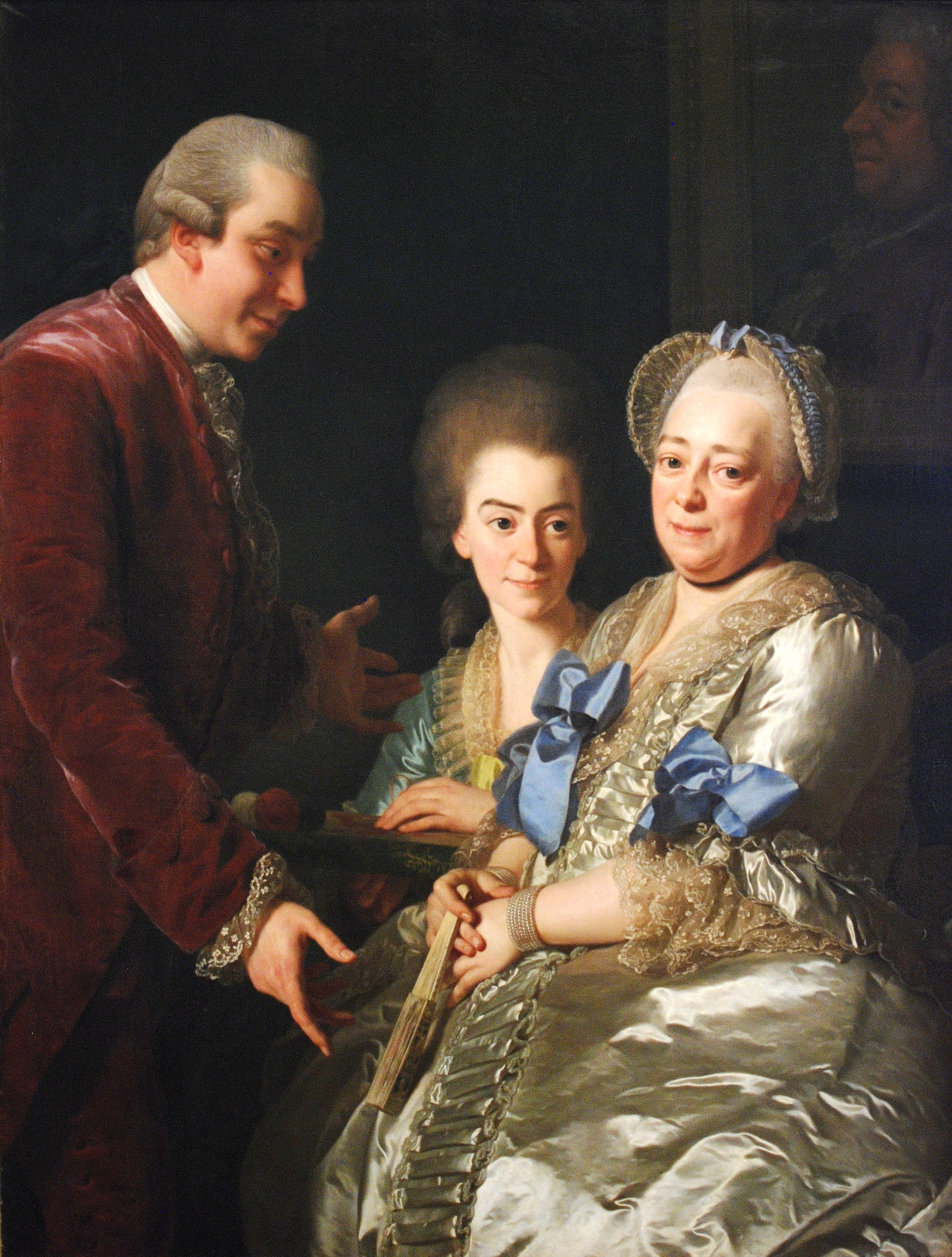 Widow Anna Johanna Grill with her son and daughter